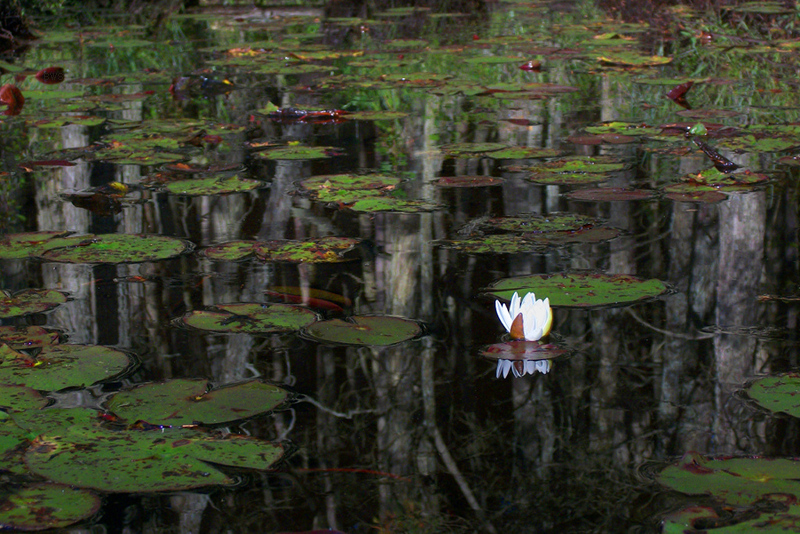 The Oswego River in the Penn State Forest, part of the New Jersey Pinelands National Reserve, New Jersey. Reflection of a water lily and Atlantic white cedar trees.